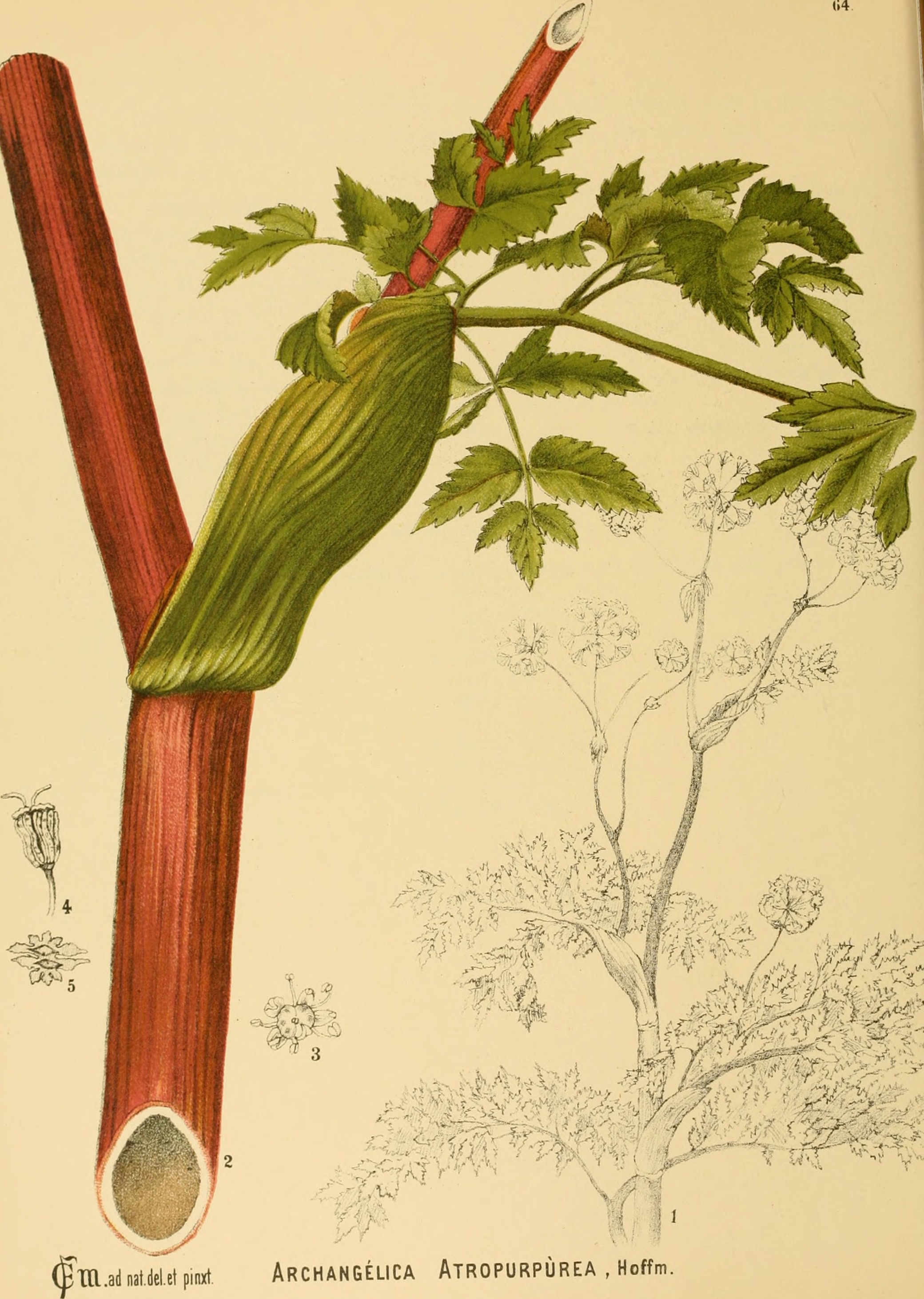 Title: American medicinal plants; : an illustrated and descriptive guide to the American plants used as homopathic remedies : their history, preparation, chemistry, and physiological effects. Year: 1887 (1880s) Authors: Millspaugh, Charles Frederick, 1854-1923 Subjects: Botany, Medical; Botany; Botany; Botany Publisher: New York ; Philadelphia : Boericke & Tafel. Text Appearing Before Image: U4 Text Appearing After Image: .ad nat.del.et ArCHANGELICA AtROPURPUREA ,Hoffm.